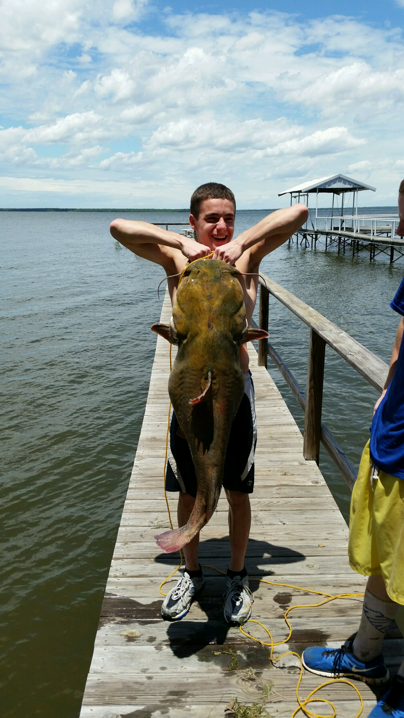 Enrique Serrano with a 60lb catfish caught by noodling. Caught June 18th 2015